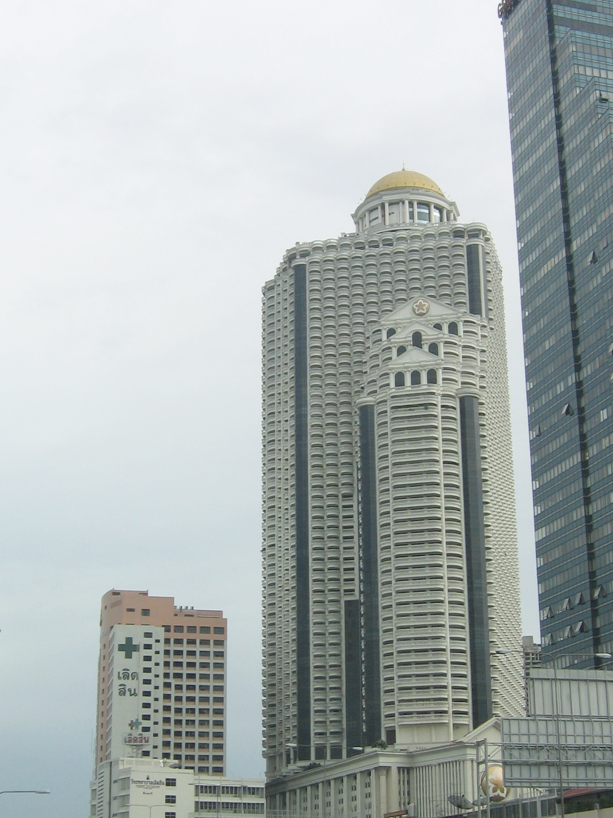 The building with yellow dome on the top is State Tower on Si Lom Road, Bangkok, Thailand. It is Thailand's second tallest building at 247 meters height with 68 floors. (Gems Tower, the building with blue glass windows on the right, is actually shorter but doesn't appear so due to viewing angle.)